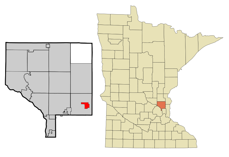 This map shows the incorporated and unincorporated areas in Anoka County, highlighting Centerville in red. This file has been updated to reflect the recent incorporation of new municipalities.